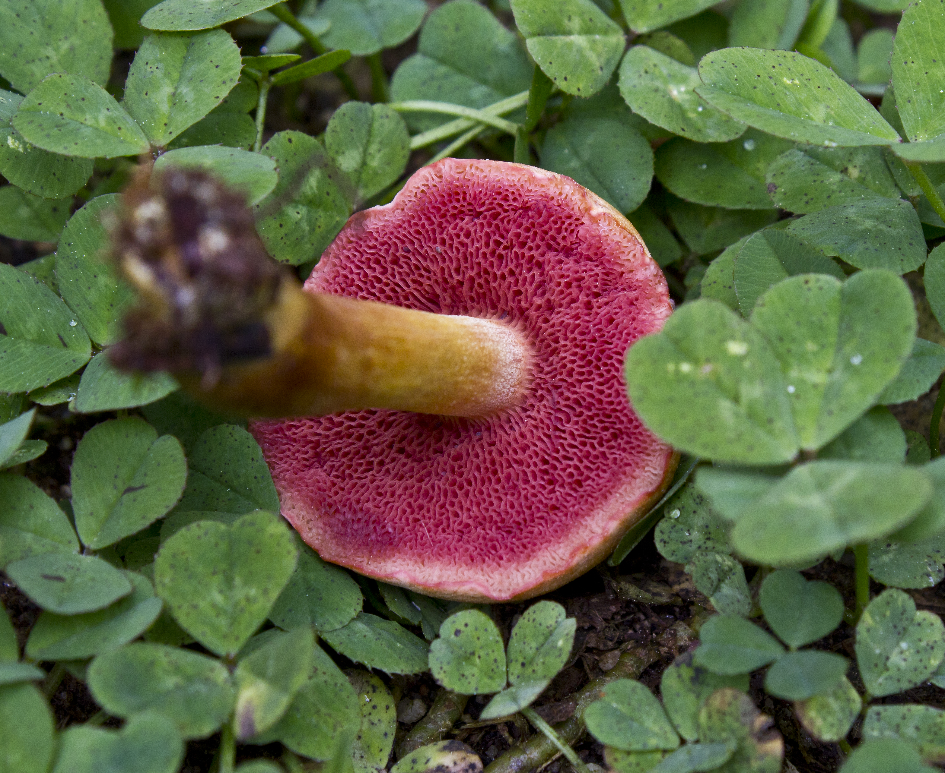 A fruit body of the bolete fungus Chalciporus pseudorubinellus (A.H. Sm. & Thiers) L.D. Gómez. Photographed in Oxford Co., Maine, USA.